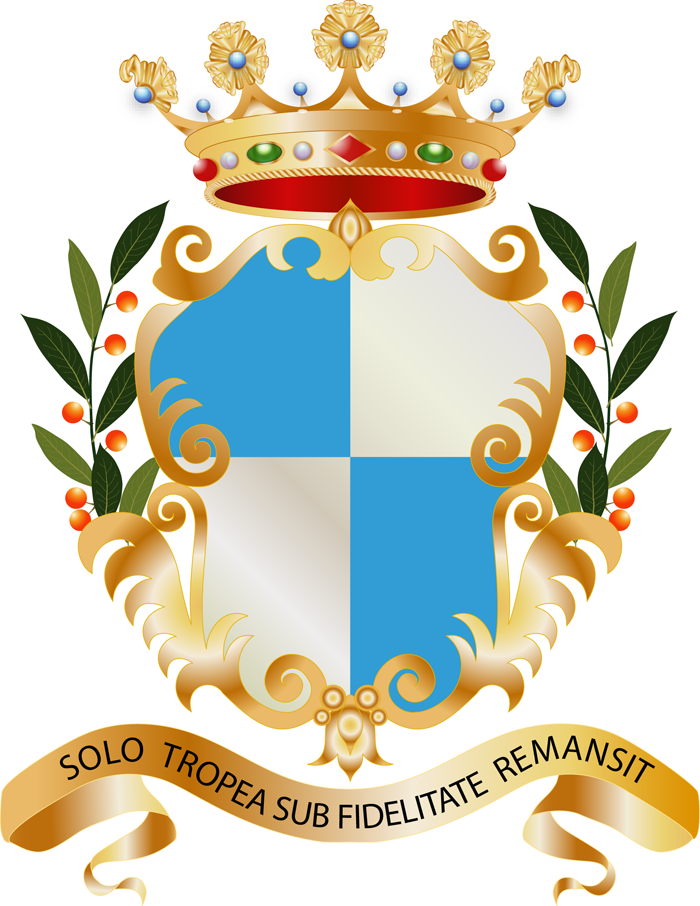 Coat of arms of Tropea (Vibo Valentia), Italy